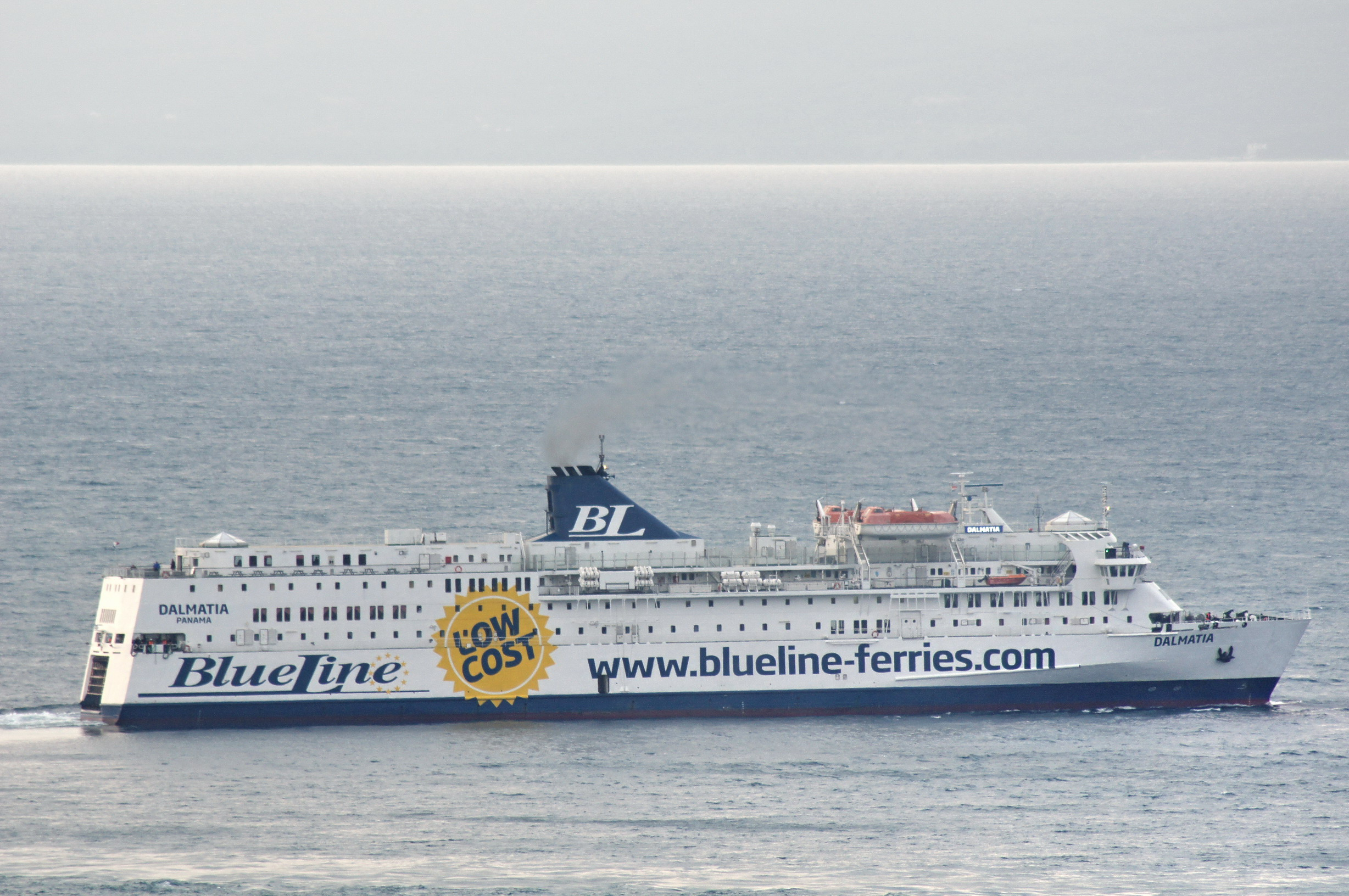 Dalmatia (ship, 1977) IMO 7516761; in Split, 2011-11-08